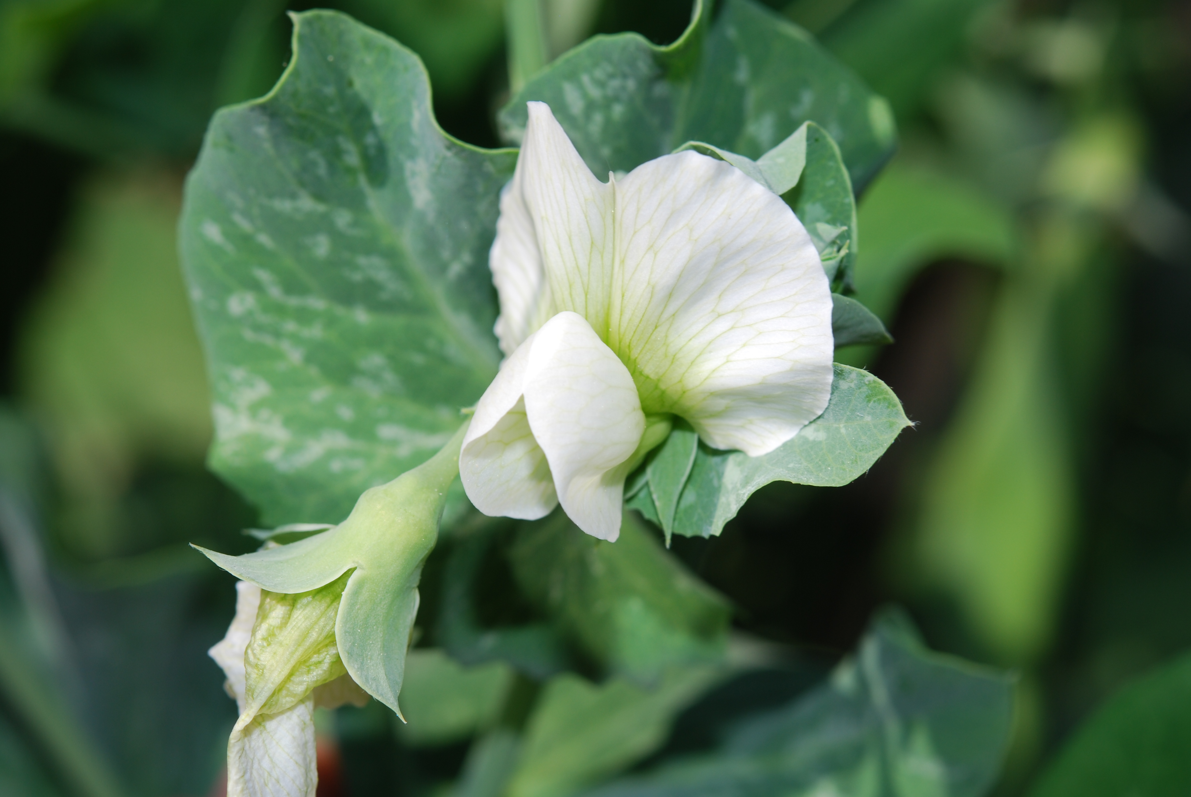 This is a Peas (Pisum sativum) flower.